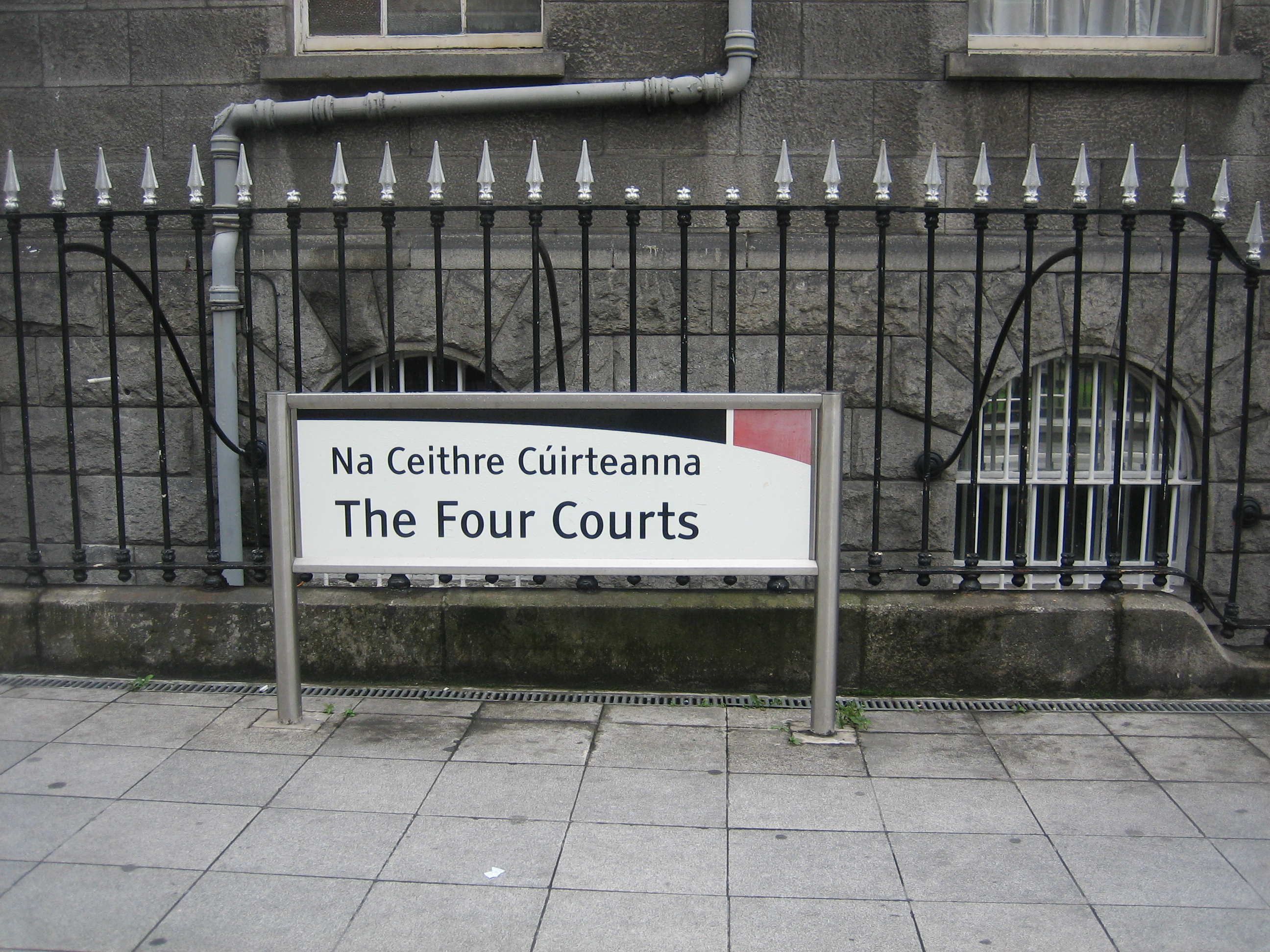 Irish / English sign at the Four Courts (Na Ceithre Cúirteanna) Luas stop in central Dublin